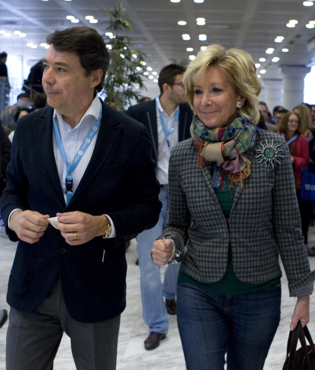 Esperanza Aguirre e Ignacio González